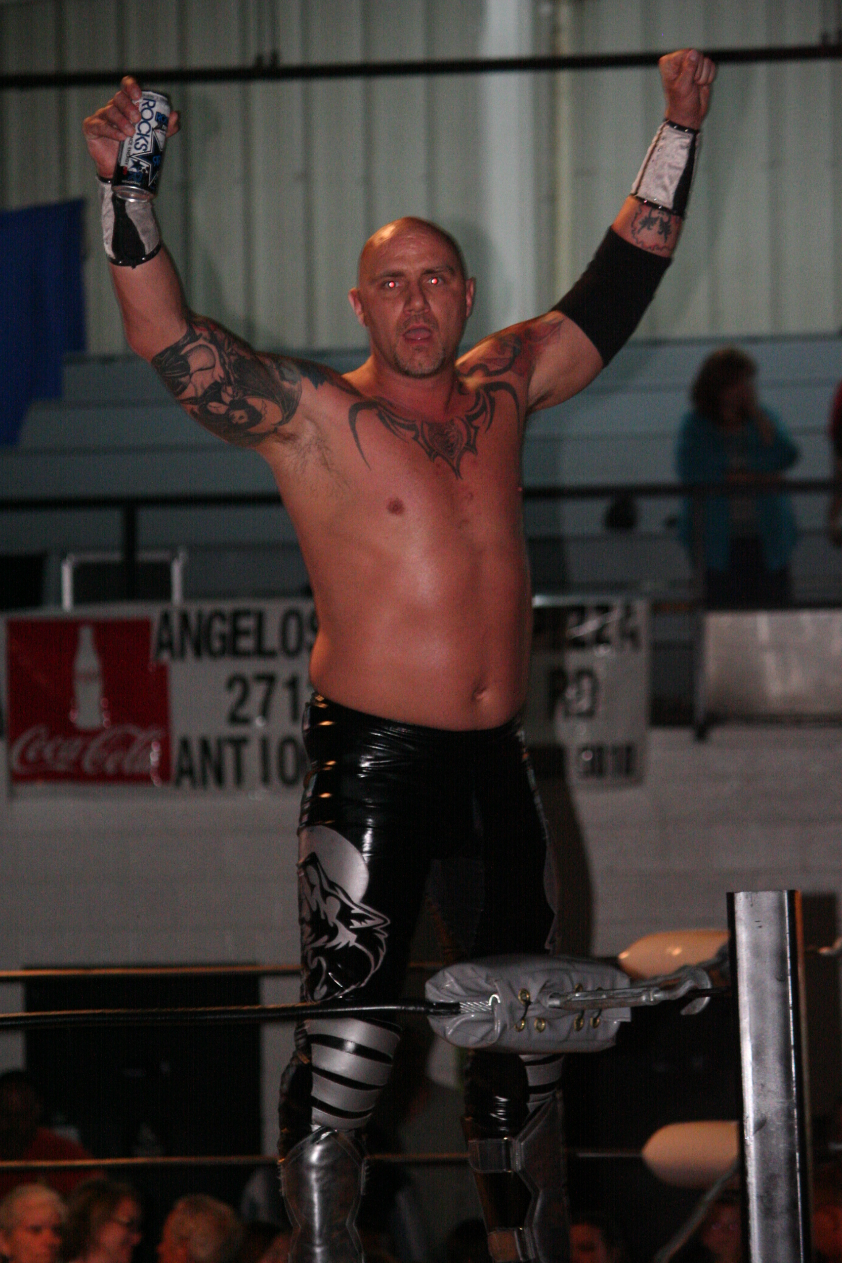 Wolfie D at a Crossfire Pro Wrestling show in Nashville, TN in May 2012.